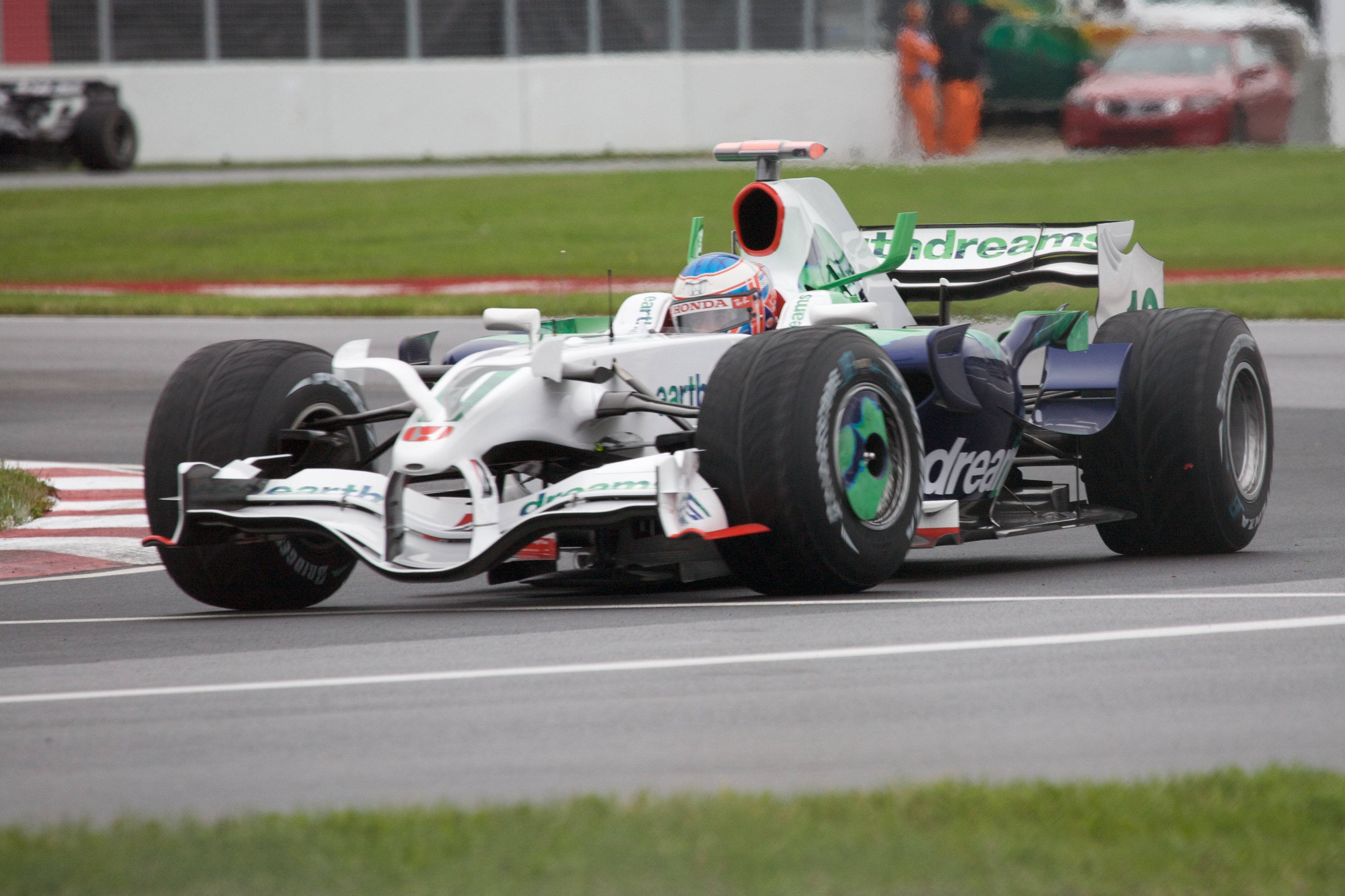 Jenson Button driving for Honda F1 at the 2008 Canadian Grand Prix.